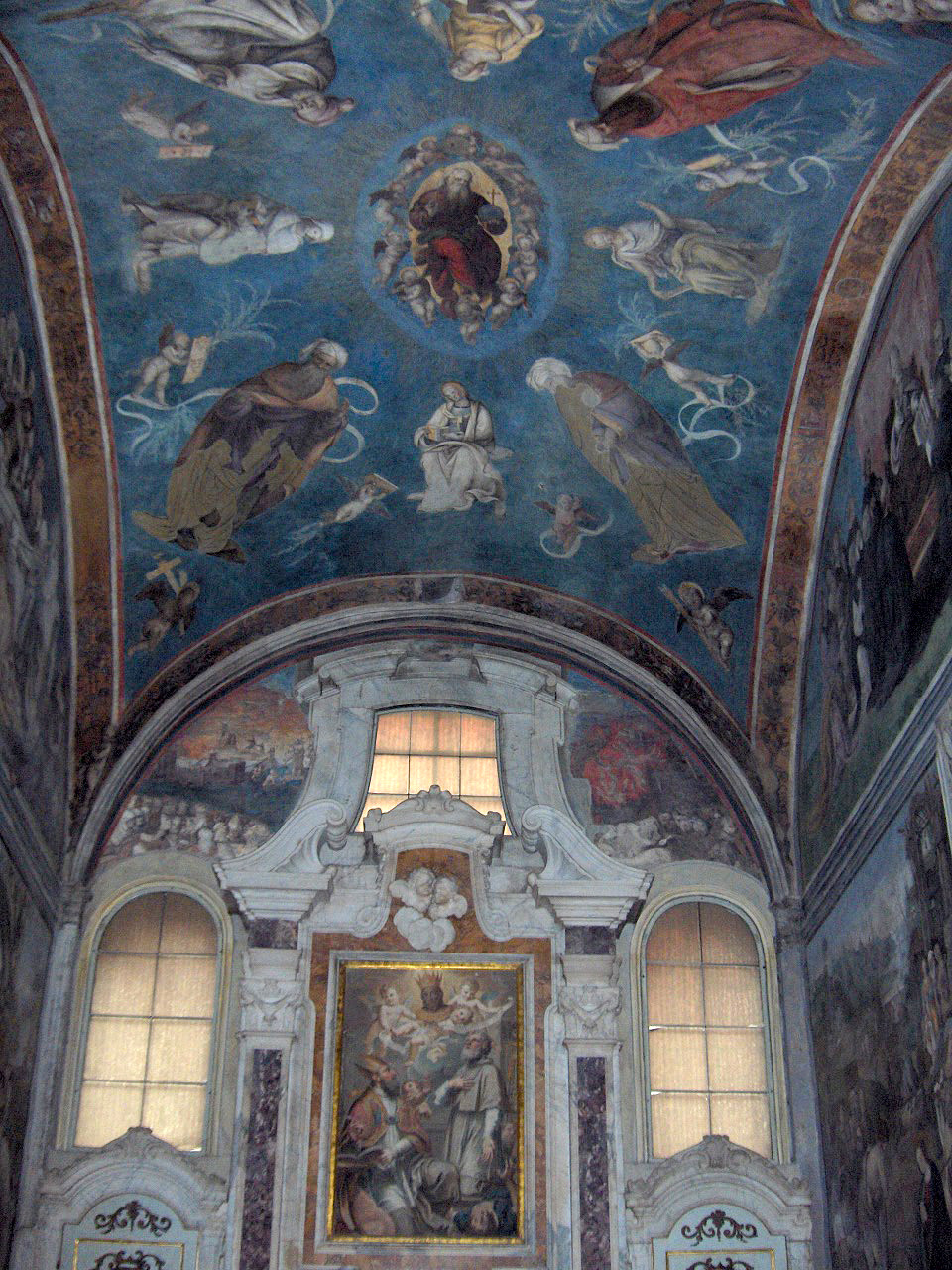 Chapel of the Cross in the basilica of San Frediano; Lucca, Italy Own photo - photo made by Georges Jansoone on 10 October 2005